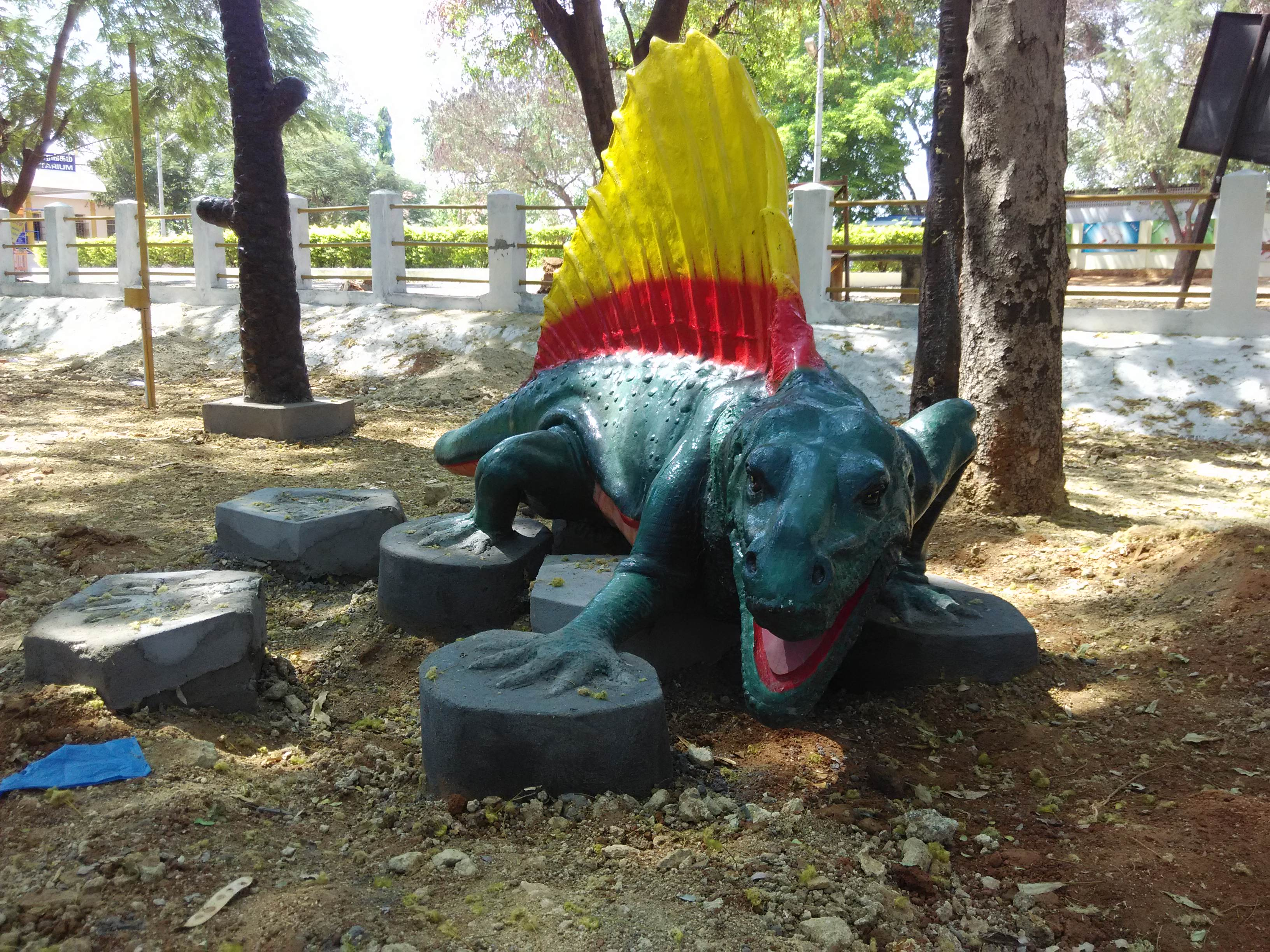 Jurassic age Fauna model are kept in this park.